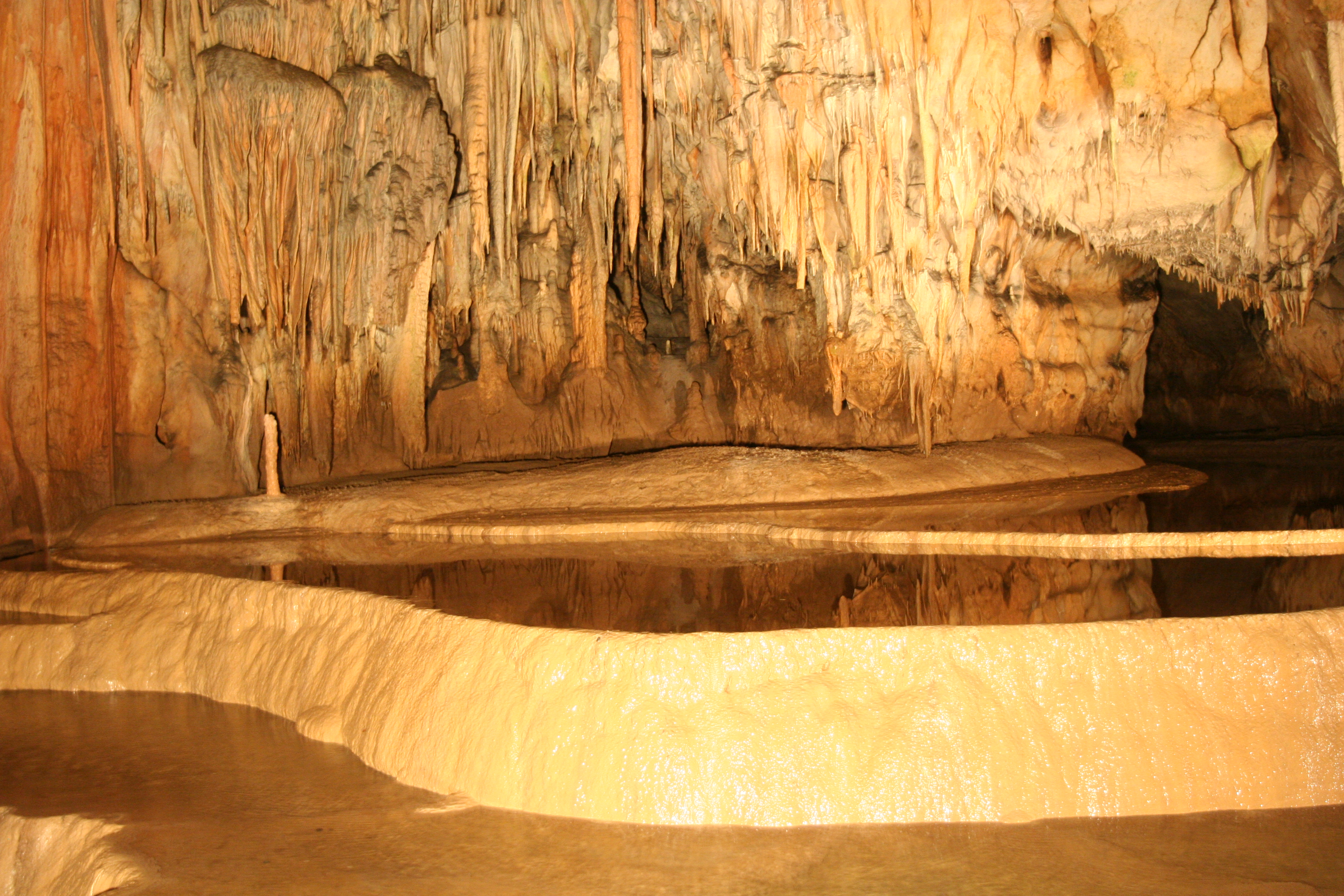 Domica Cave, Slovakia. Taking this photo was made possible through the financial support of Wikimedia Polska.